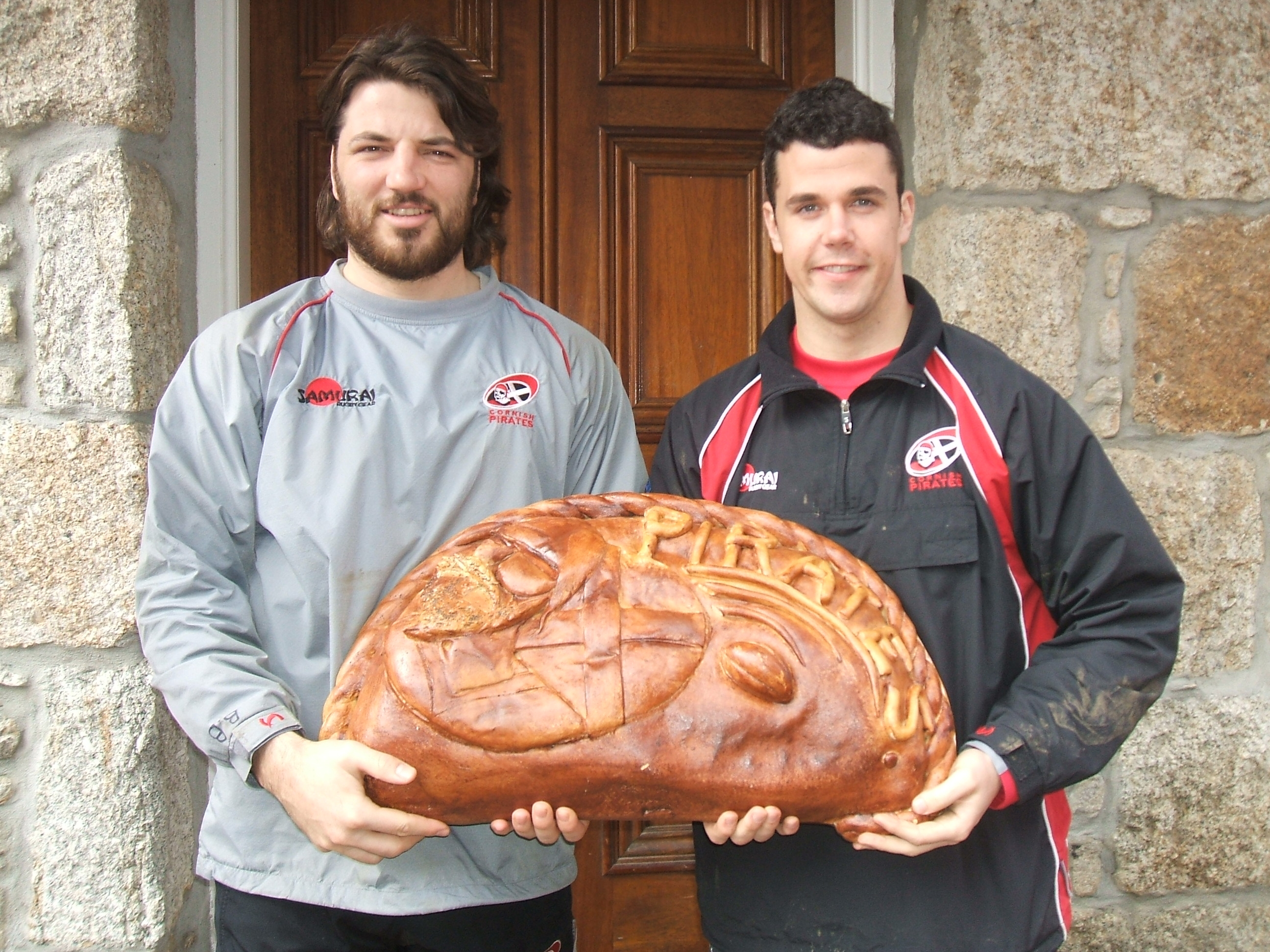 Bertrand Bedes and Adryan Winnan hold a giant pasty made by W. C. Rowe's, Cornish Bakers, which was paraded as part of the St. Piran's Festival on Sunday March 8th 2009 at Camborne Cornwall